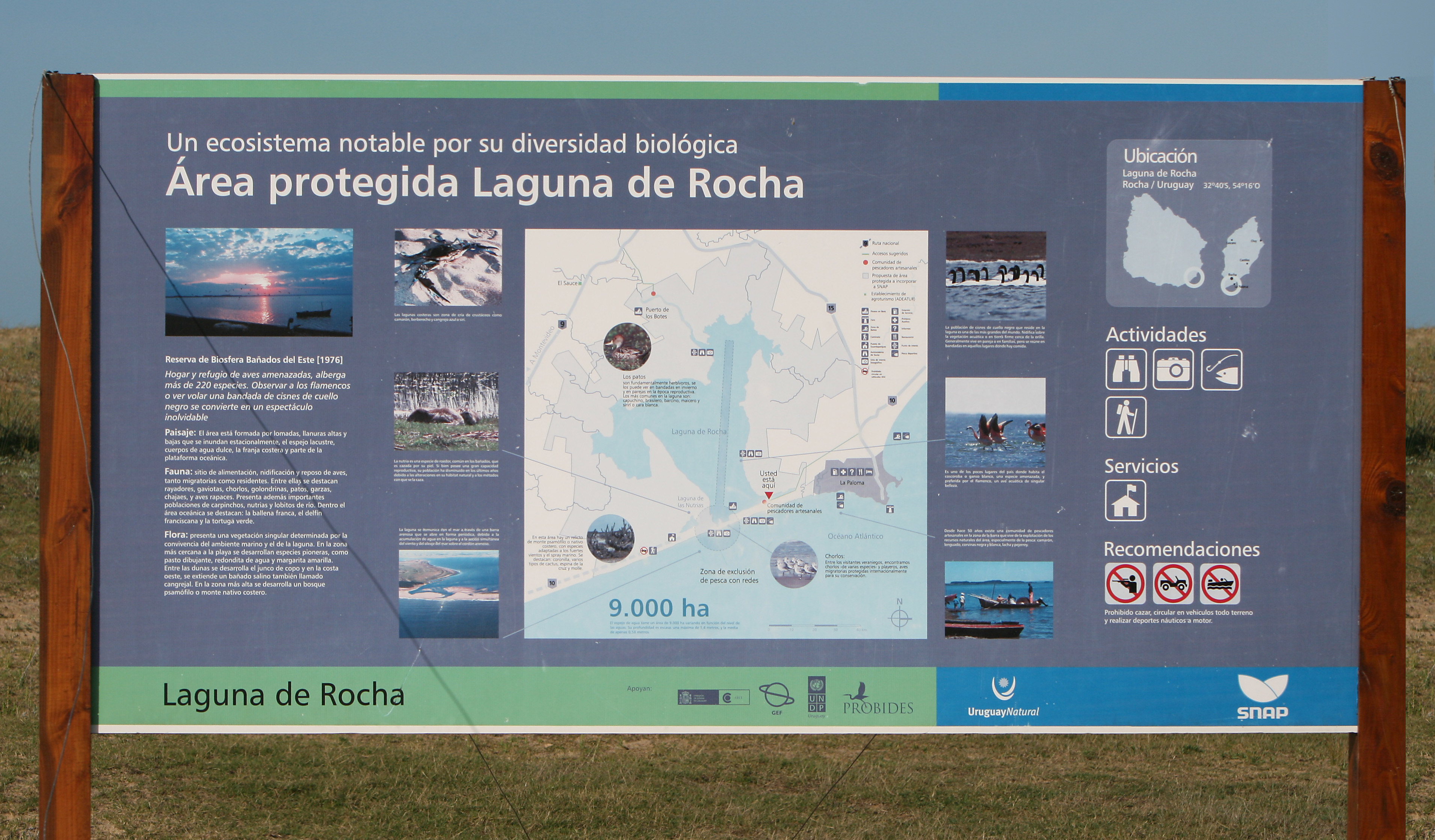 Information about Laguna de Rocha, Rocha, Uruguay. A protected area important for birds, but recently land parcels were sold here.